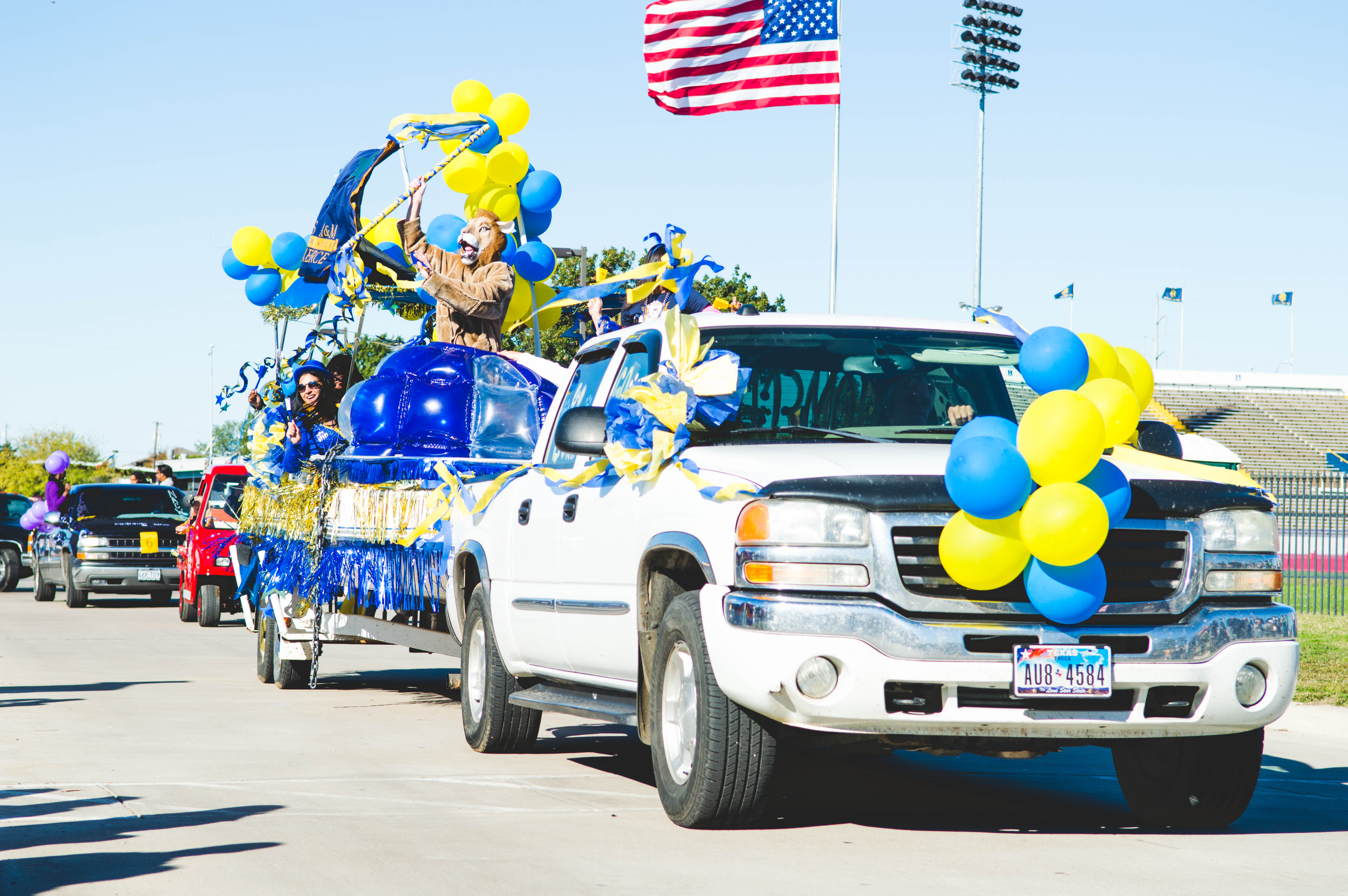 13399-Homecoming Tailgate and Game-1839.jpg Scenes from the Angelo State Rams vs. Texas A&M–Commerce Lions football game and homecoming tailgate on November 2, 2013.